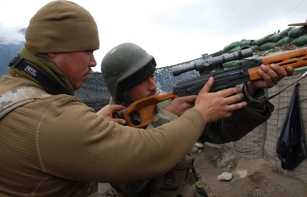 Latvian army Cpl. Deniss Makarous, from the combined U.S.-Latvian Observer, Mentor, Liaison Team, shows an Afghan soldier how to use a sniper rifle, a romanian FPK, at Observation Post Bari Alai near the village of Nishagam, in Konar province, Afghanistan, March 18, 2009. (U.S. Army photo by Sgt. Matthew C. Moeller/Released)